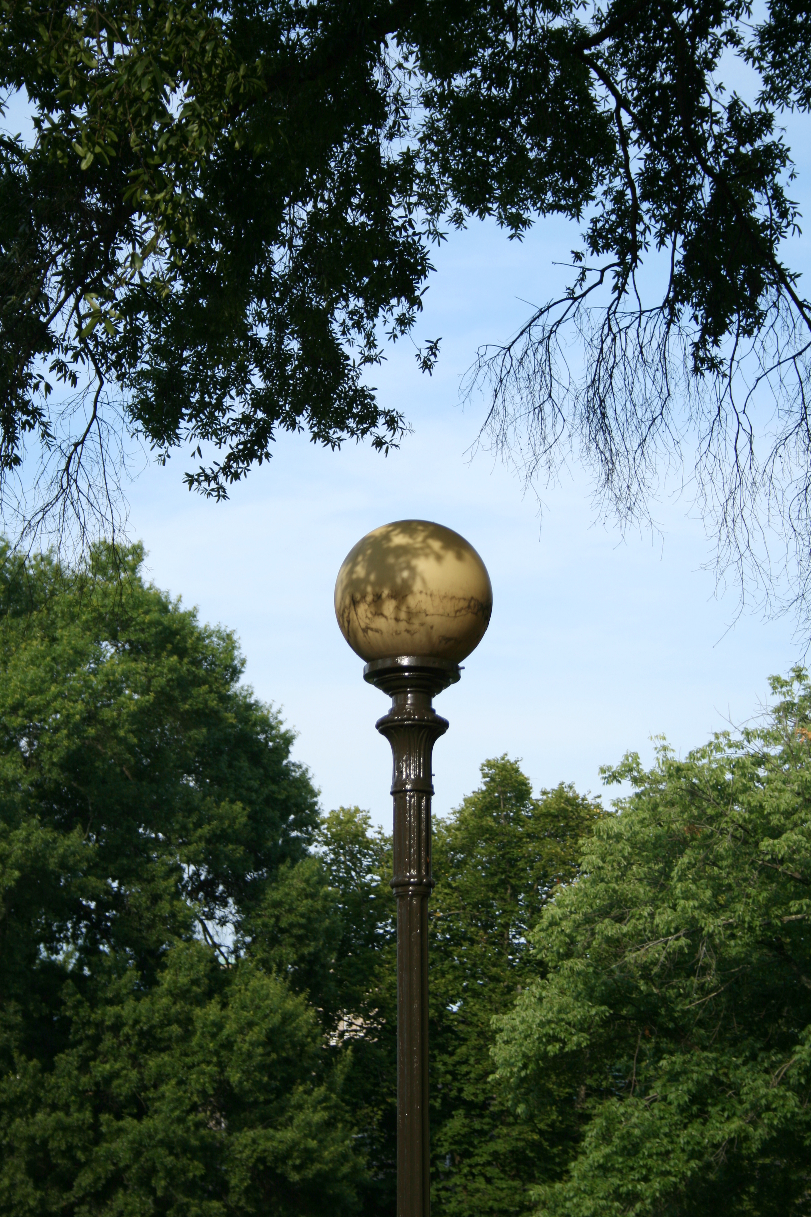 A spherical street lamp on Duke University East Campus in Durham, North Carolina.